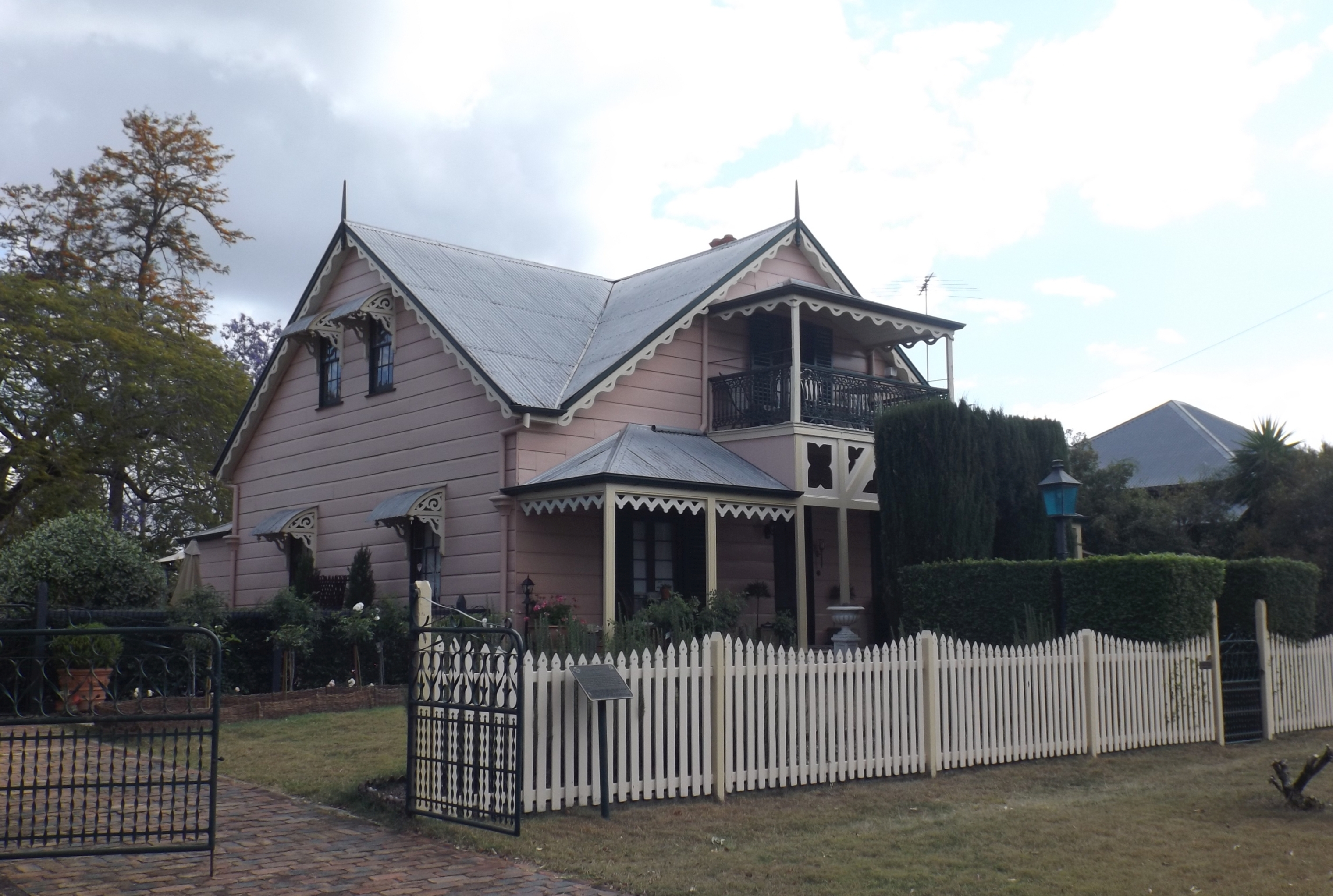 Photo of the Toronto residence, Ipswich, Queensland, Australia.